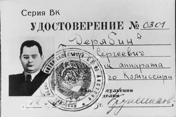 KGB Identity card of Soviet agent, Peter S. Deriabin, from a Life Magazine scan. (from article in Life Magazine by Herbert Orth, scanned at )